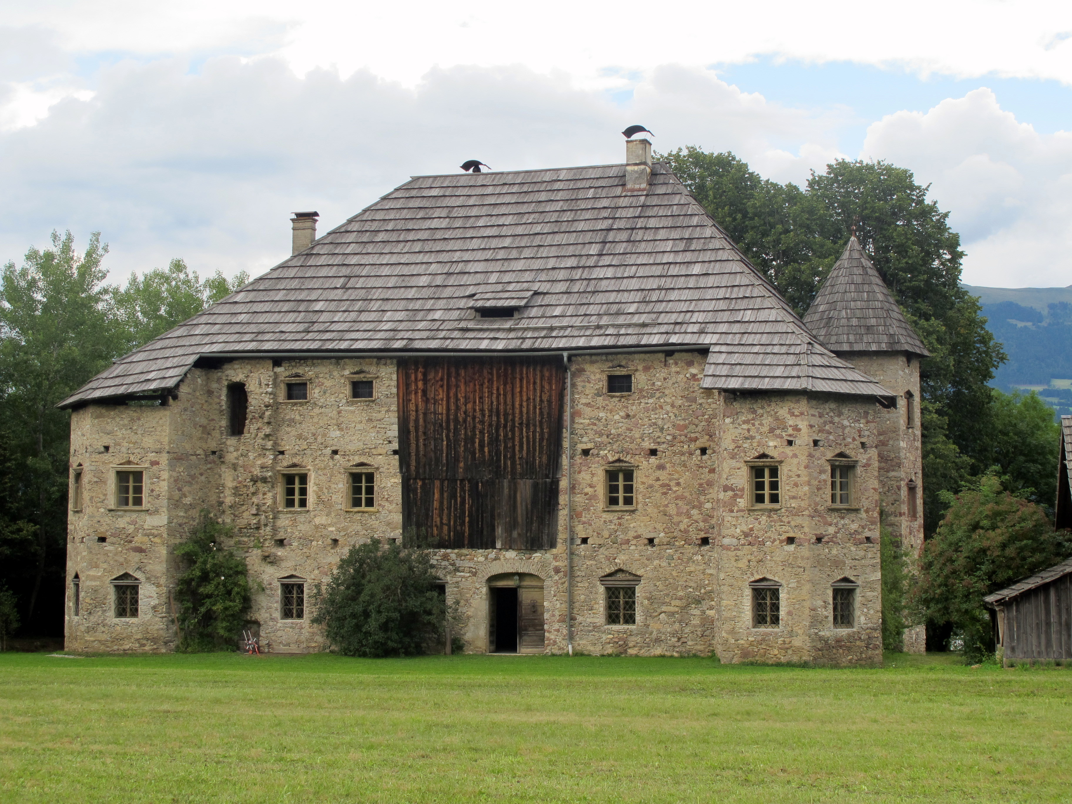 Pöllan Castle, courtyard of an administrator, in Pöllan at Paternion around 2011, district Villach-Land in Carinthia / Austria / EU. View to the north. The still not finished construction of rubble stone was built by Christoph von Haidenreich from 1598 to 1616. He was a Protestant administrators of the county Paternion, who was forced by the Catholics in Carinthia for sale and into exile. From 1616 the castle was owned by Moritz Christoph Khevenhüller. Since 1629 the castle is owned by the family Widmann, today the family Widmann-Foscari Rezzonico. Was in the place of wooden boards in front of 1897 a Renaissance double windows are installed, which now is about a portal in the castle Paternion walled.